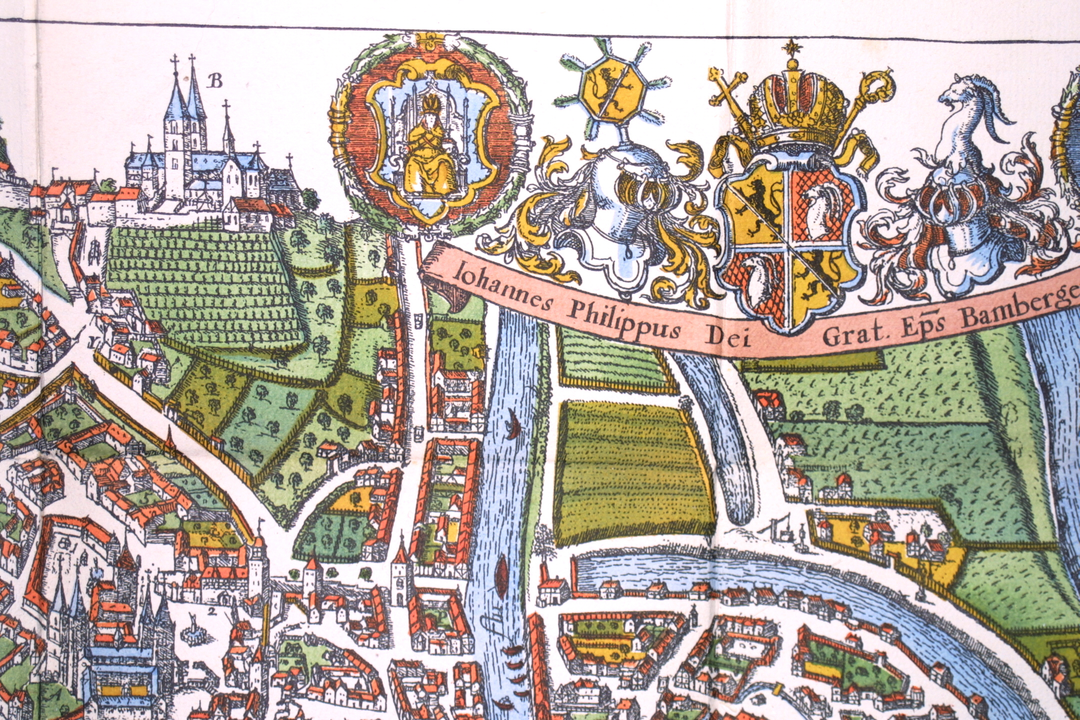 historical map of the German town of Bamberg by Georg Braun and Franz Hogenberg (between 1572 and 1618)